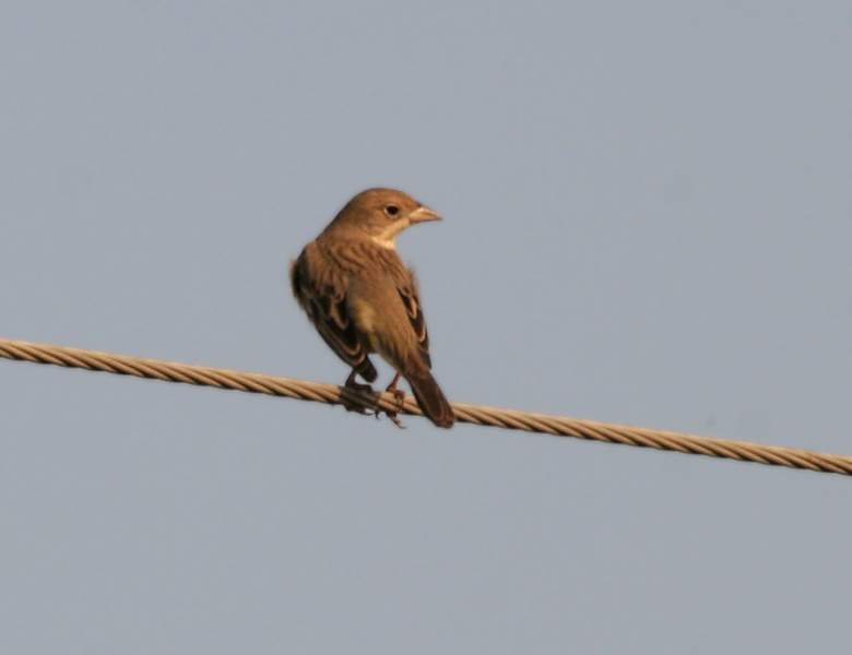 Red-headed Bunting Emberiza bruniceps in Kinnerasani Wildlife Sanctuary, Andhra Pradesh, India.